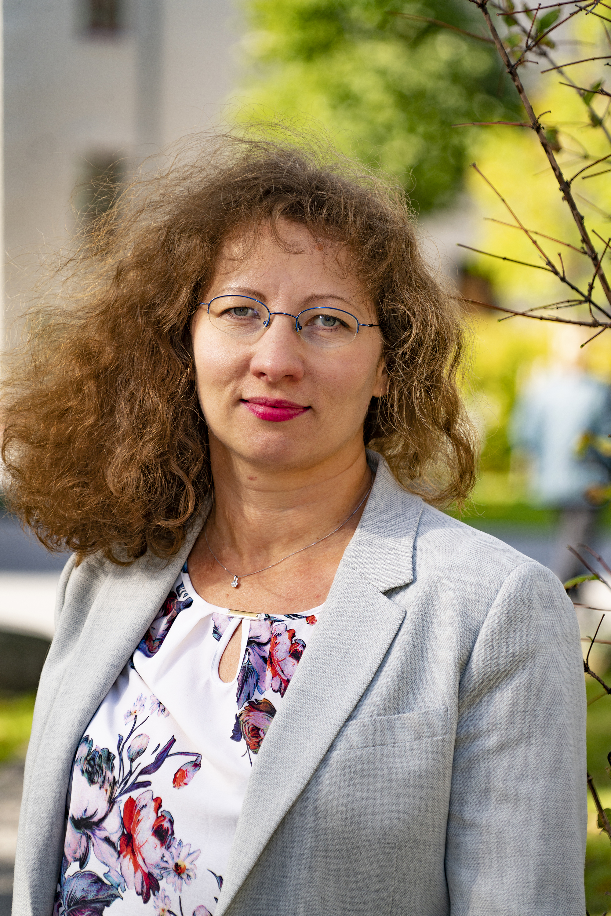 Marianna Ivashina is Head of the Antenna systems research group and Full Professor at the Department of Electrical Engineering at Chalmers University of Technology